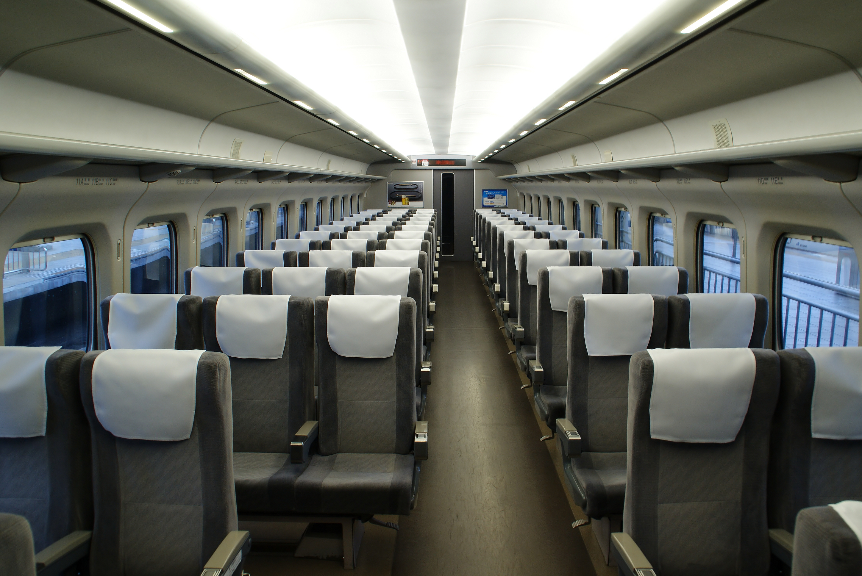 Cabin of West Japan Railway, Series 300-3000